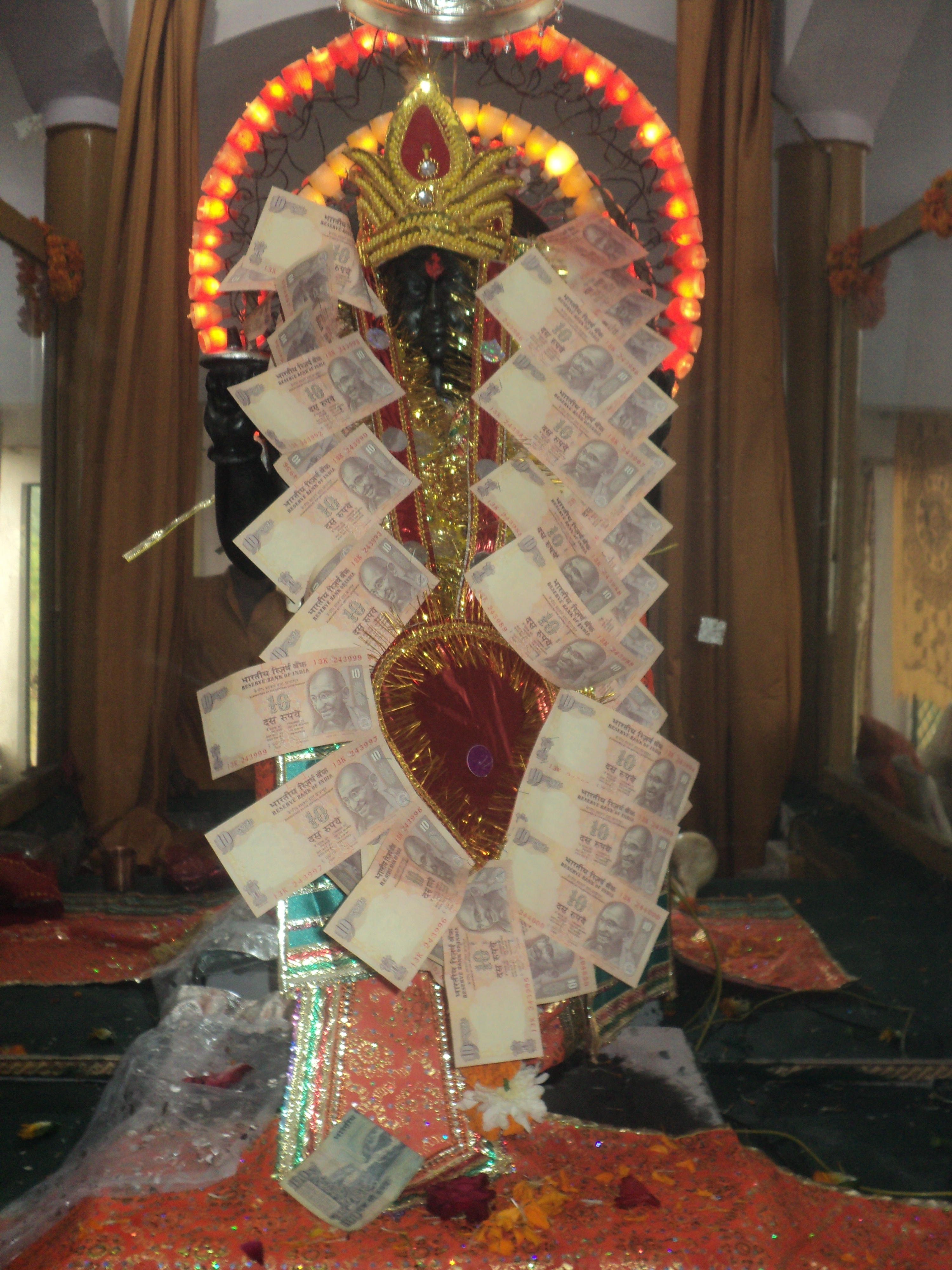 Murti of Shree Vishnu Bhagwan in shree Vishnu Mandir